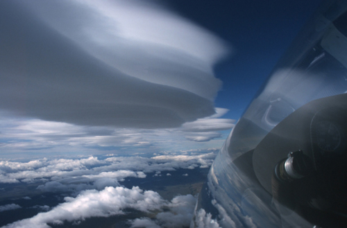 Rotors and Waves in the Lee of the Andes